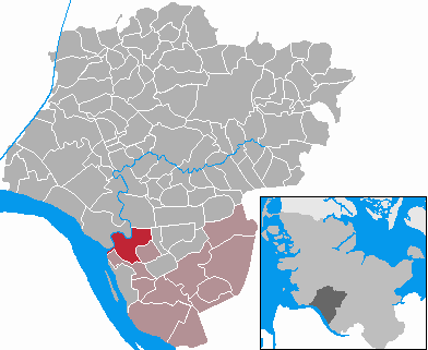 This map shows the area of the municipality Borsfleth in the Kreis (district) Steinburg, Schleswig-Holstein, Germany.